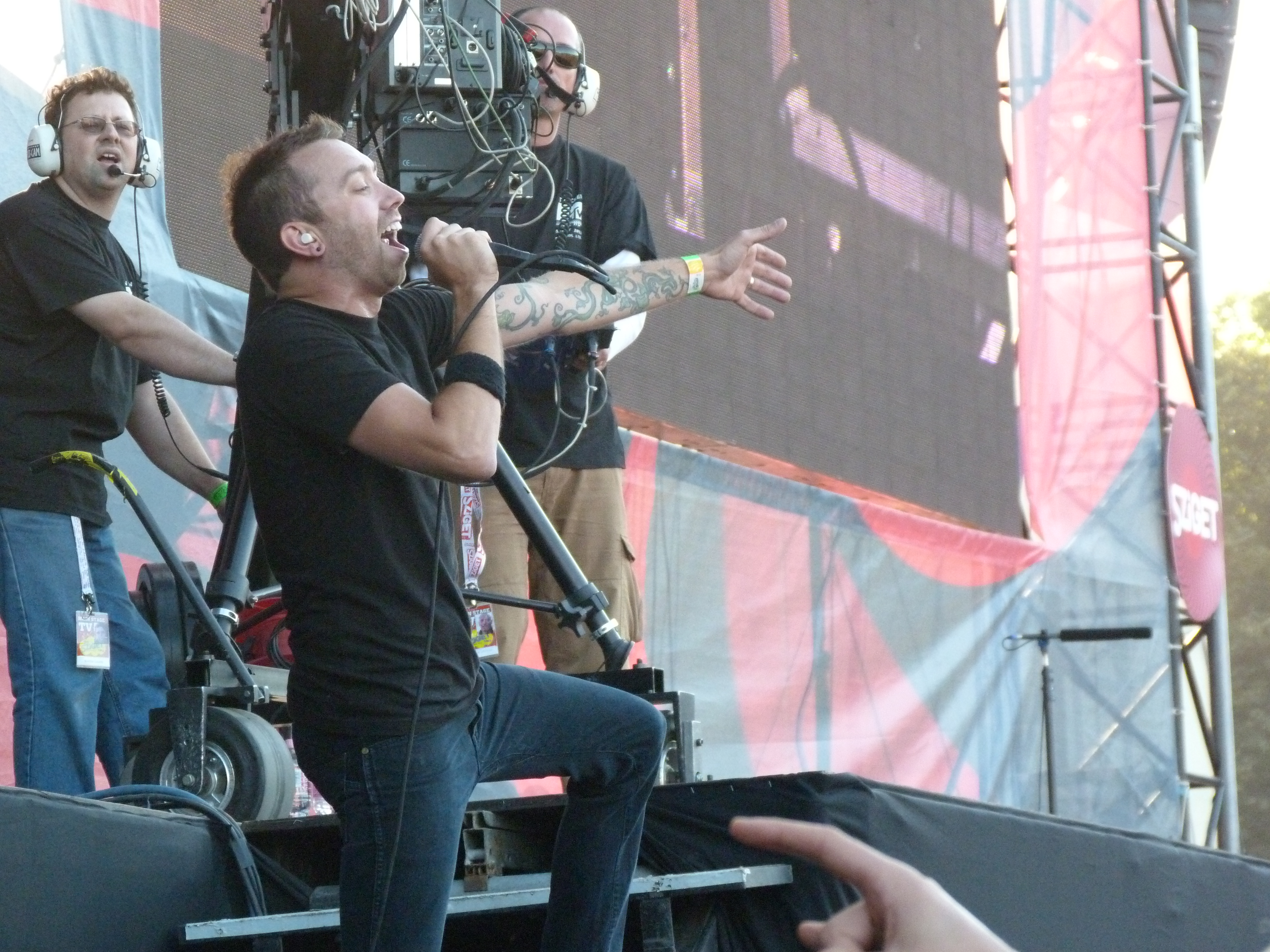 Tim McIlrath.Rise Against was playing at Sziget Festival in Budapest, on the 10th of August, 2011. American hardcore punk band from Chicago, Illinois. Formed in 1999, the band currently consists of Tim McIlrath (lead vocals, rhythm guitar), Zach Blair (lead guitar, backing vocals), Joe Principe (bass guitar, backing vocals) and Brandon Barnes (drums, percussion). Published under Creative Commons in the Metapolisz DVD line.